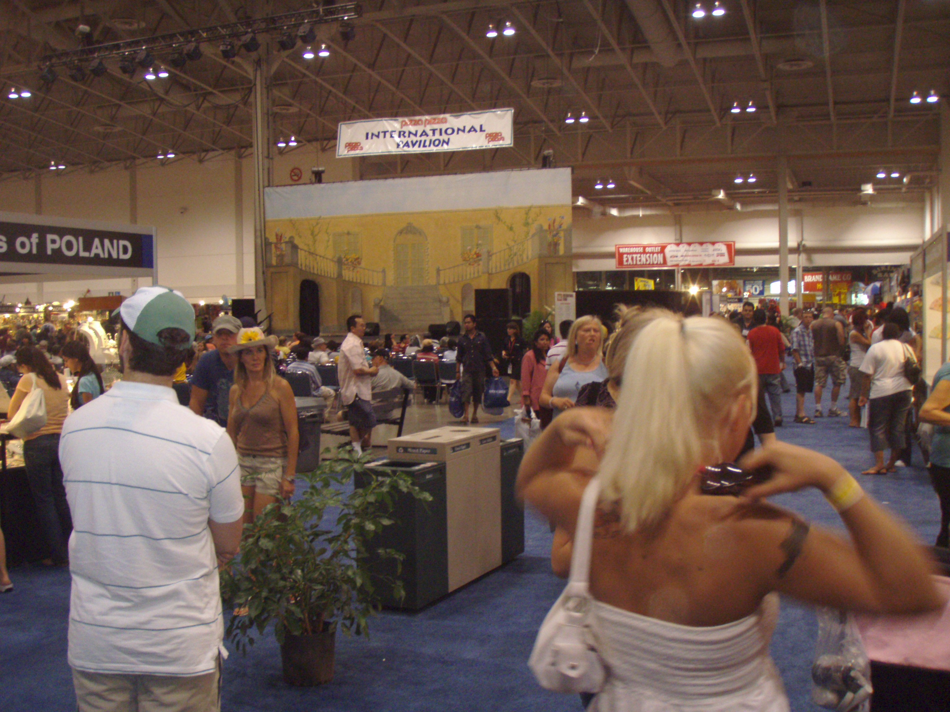 tan and blone, plus pat (international pavillion)